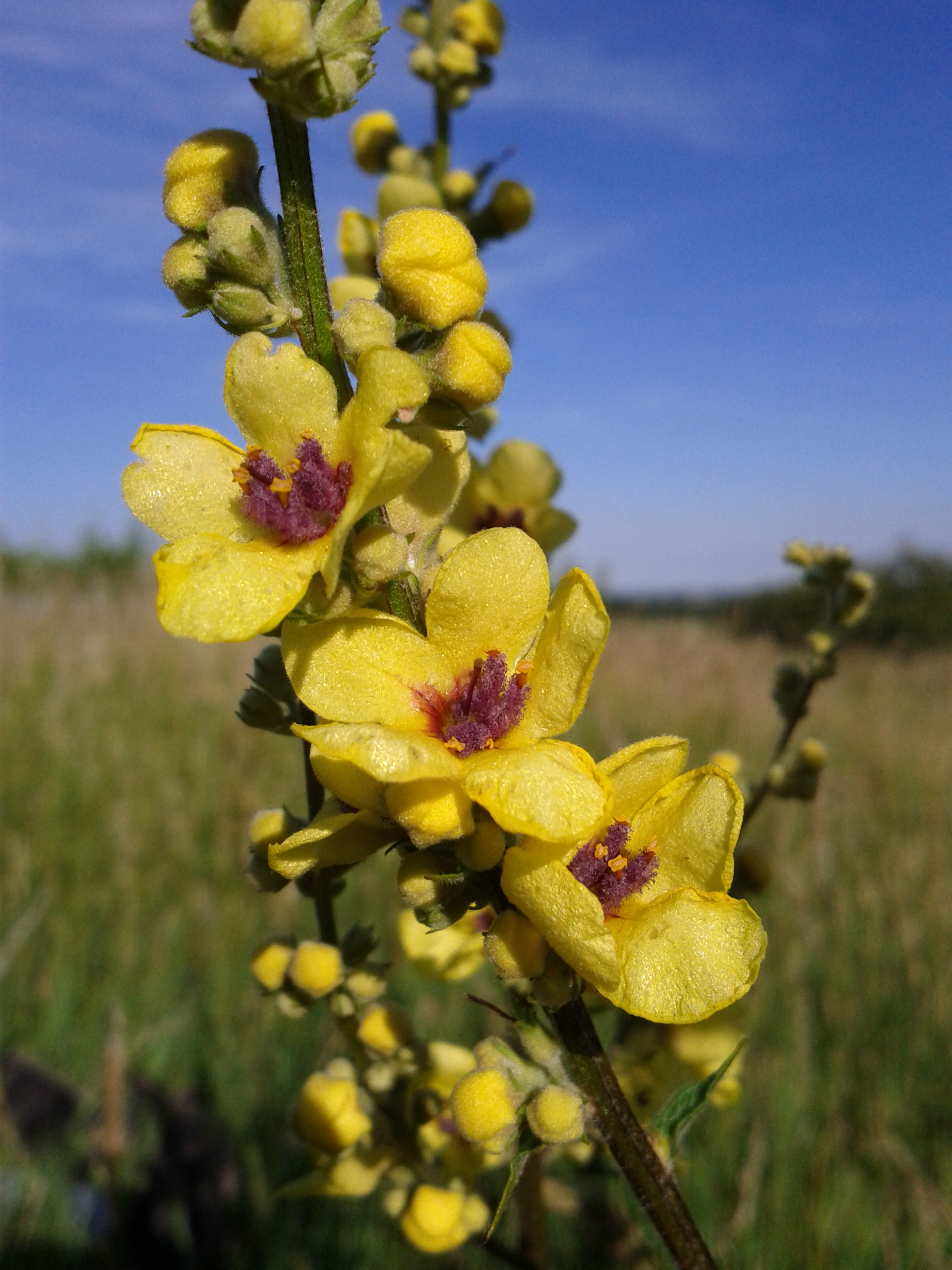 Inflorescence Taxonym: Verbascum chaixii subsp. austriacum ss Fischer et al. EfÖLS 2008 ISBN 978-3-85474-187-9 Location: near Alte Schanzen, Floridsdorf, Vienna - ca. 225 m a.s.l. Habitat: fallow land